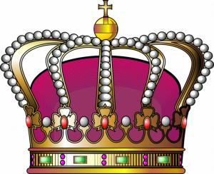 Grossherzogskrone - German Greatduke Crown